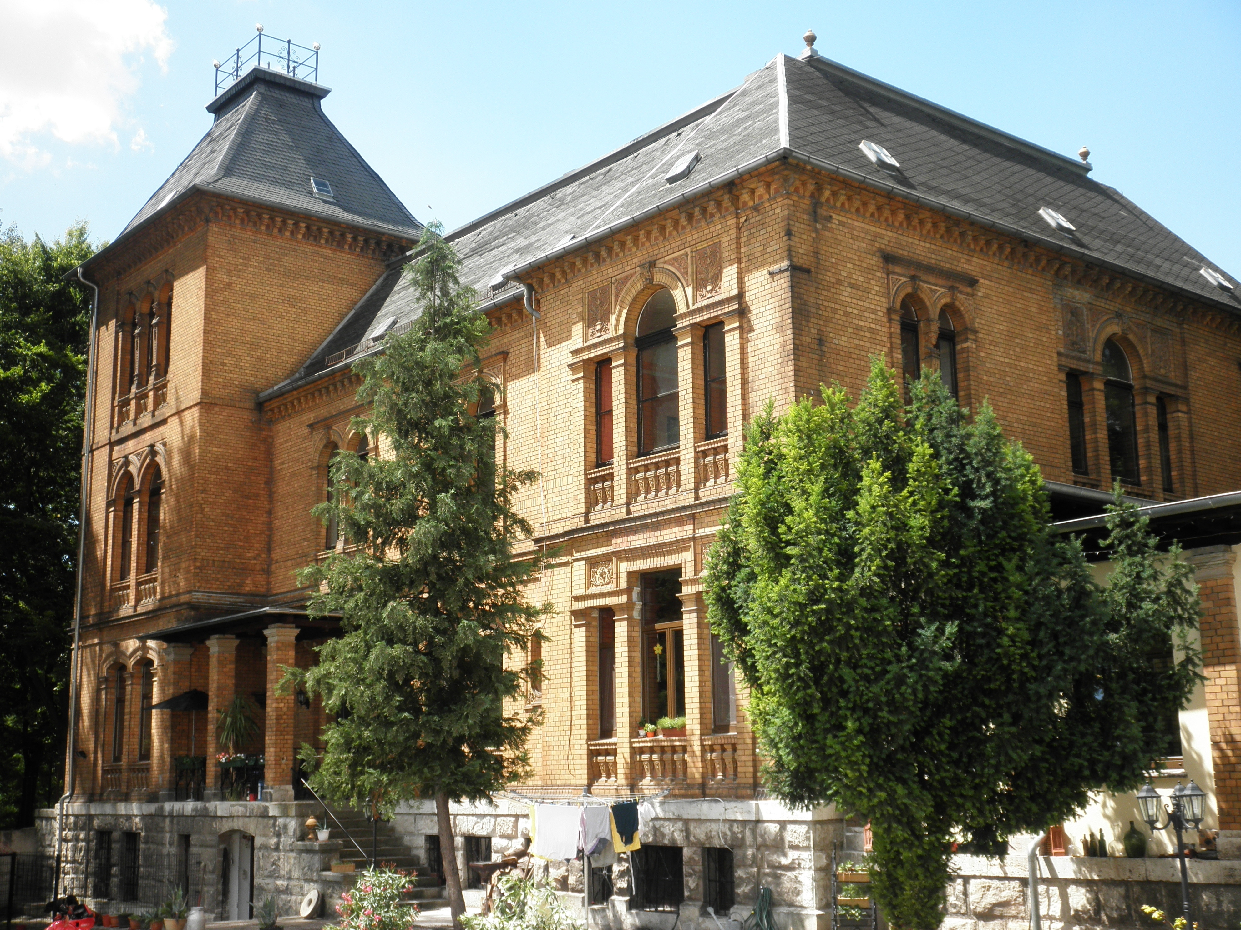 Castle in Eckstedt (Thuringia)